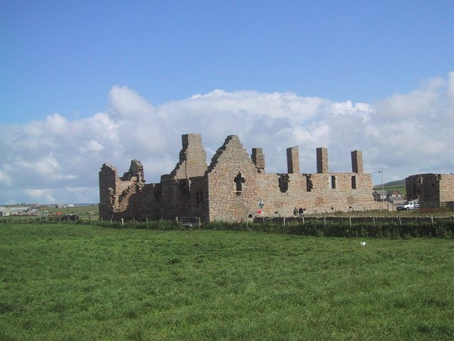 Earl's Palace, Birsay